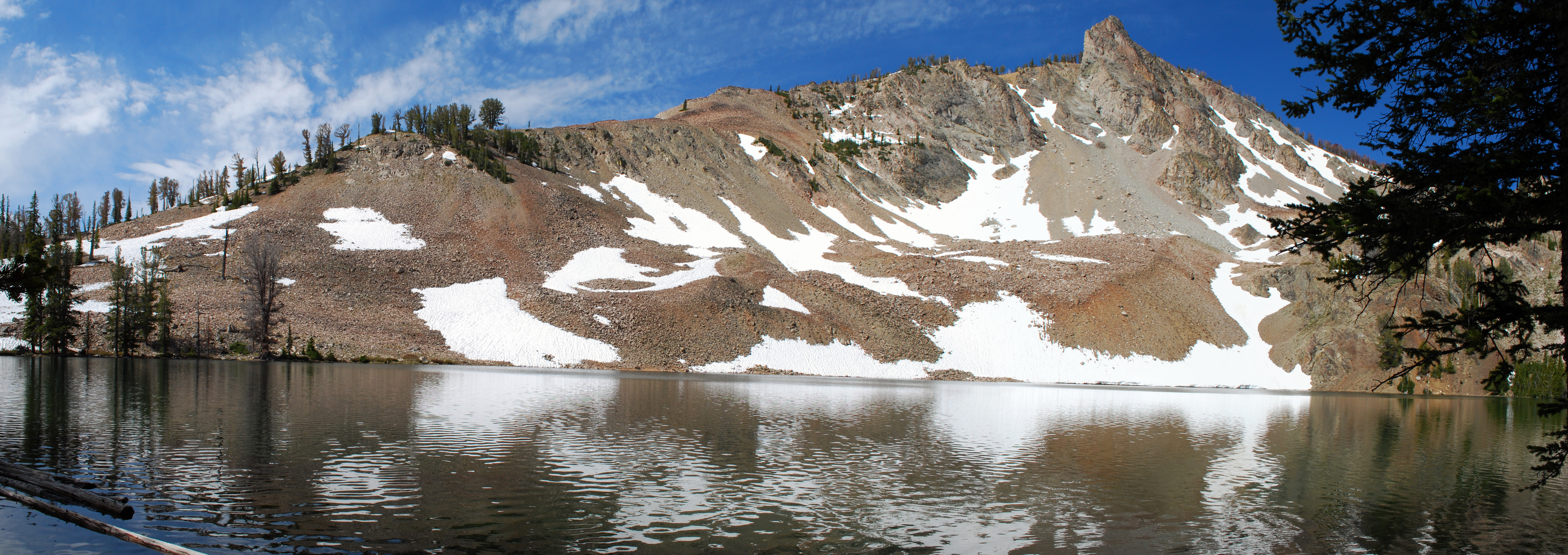 Baker Lake Panorama in Sawtooth National Forest, Idaho